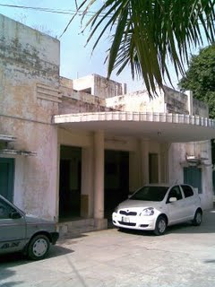 house of maulana maududi, Lahore